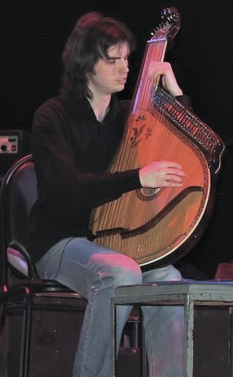 George Matviív - ex-bandurist of Flëur